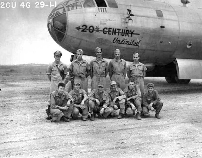 40th Bombardment Group Boeing B-29-5-BW Superfortress 42-6281 "20th Century Unlimited" at Hsinching Airfield (A-1), China, advanced China Base of the 40th Bomb Group after completion of a raid on Anshan, Manchuria. Mission #4, 29 July 1944 Aircraft exploded Oct 17, 1944 at West Field, Tinian, Mariana Islands. Back row, left to right: 2nd Lt. William L. Gardner, Metamora, Ind, bombardier 1st Lt. Jamez V. Decoster, Portland, Oregon, oo-pilot Capt. Jack C. Ledford, Zanesville, Ohio, pilot M/Sgt. Harry E, Miller, Denver, Colo., flight engineer 2nd Lt. Harold T. Oblender, Lancaster, Pa., navigator Front row, left to right: Sgt. Gilbert H. Rodencol, Berlin, Wisc., radar operator Sgt. Thomas A. Clark, Los Angeles Calif., senior gunner S/Sgt. Charles D. Bacon, New Castle, Pa., right gunner S/Sgt. D..L. McCullough, Webb City, Mo., radio man S/Sgt. Russell F. Elwell, Suncook, N.H., left gunner T/Sgt. Enrico Pisterzi, Arvados, Colo,, tail gunner